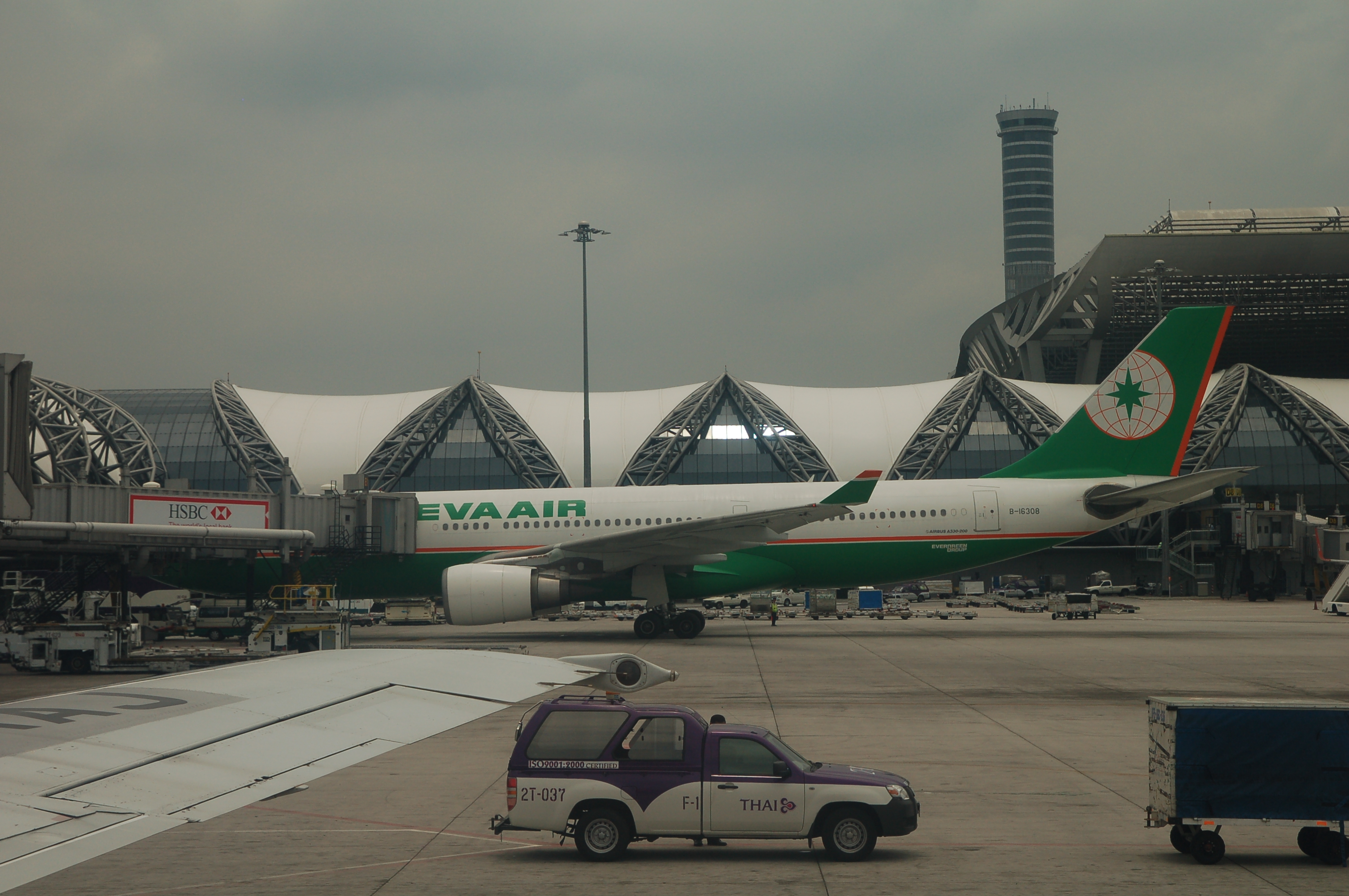 More here